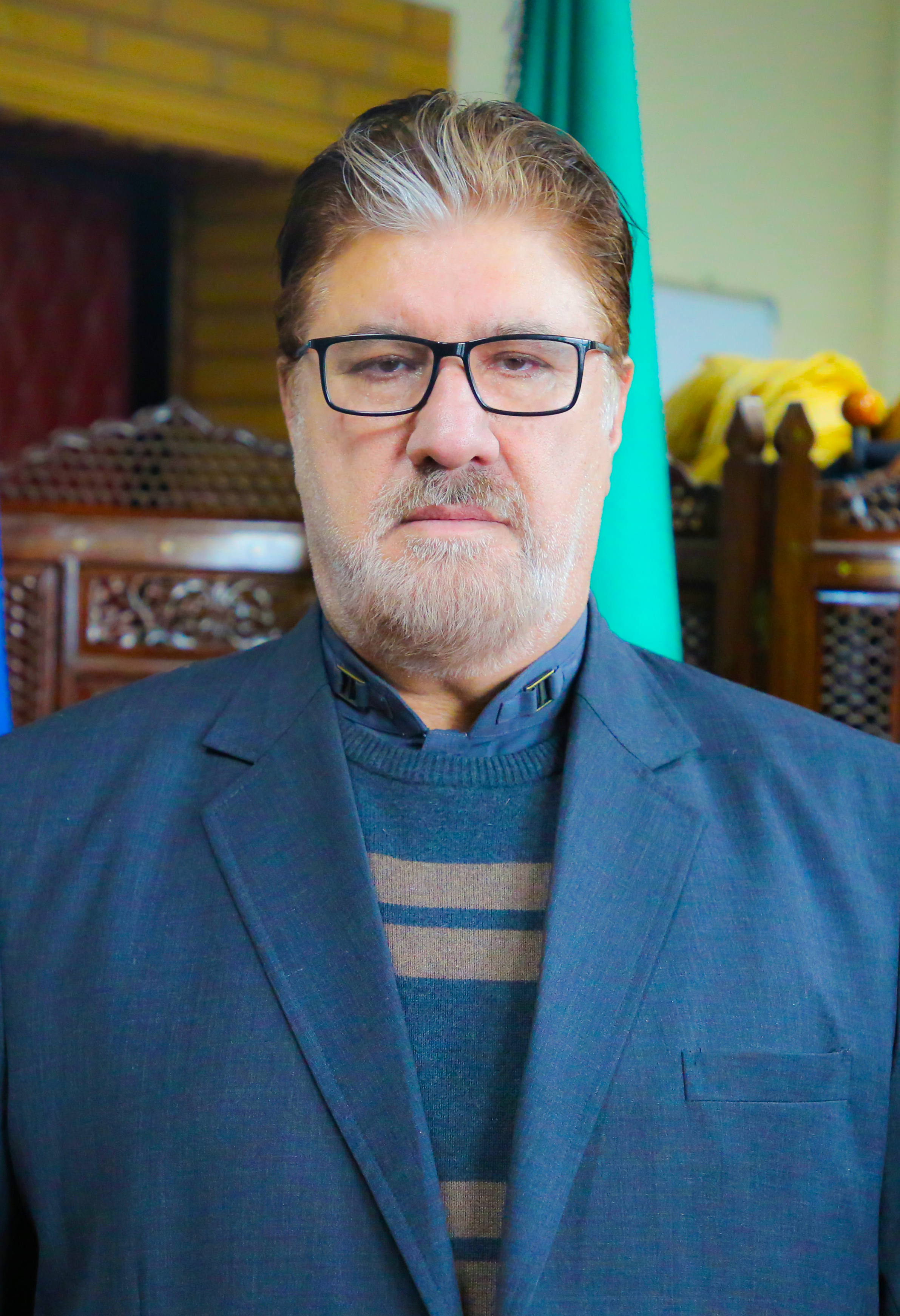 Haji Fazel Karim Fazel